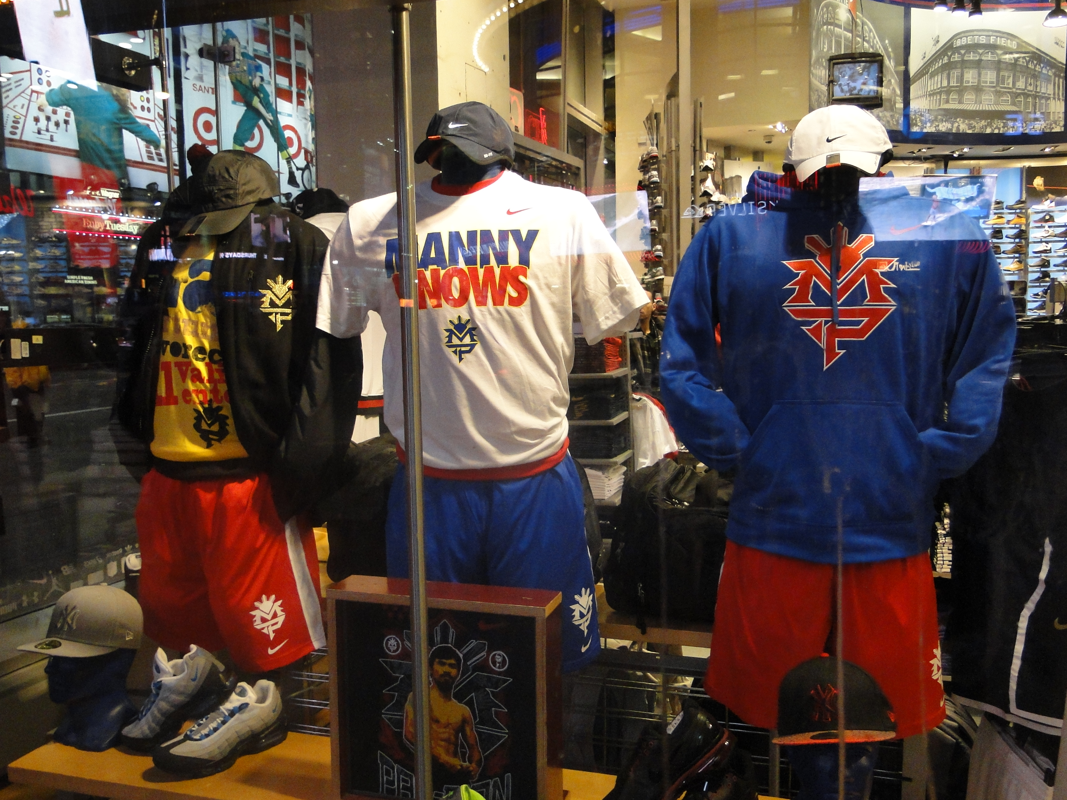 Manny Pacquiao (MP) clothing at display